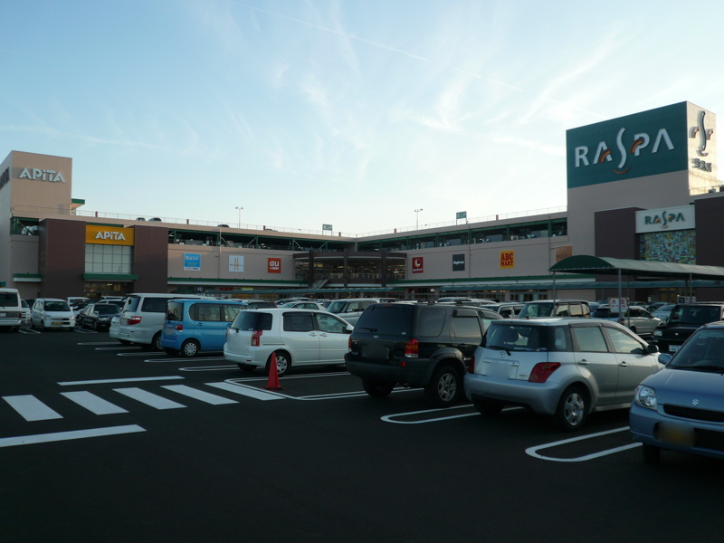 RASPA_Mitake